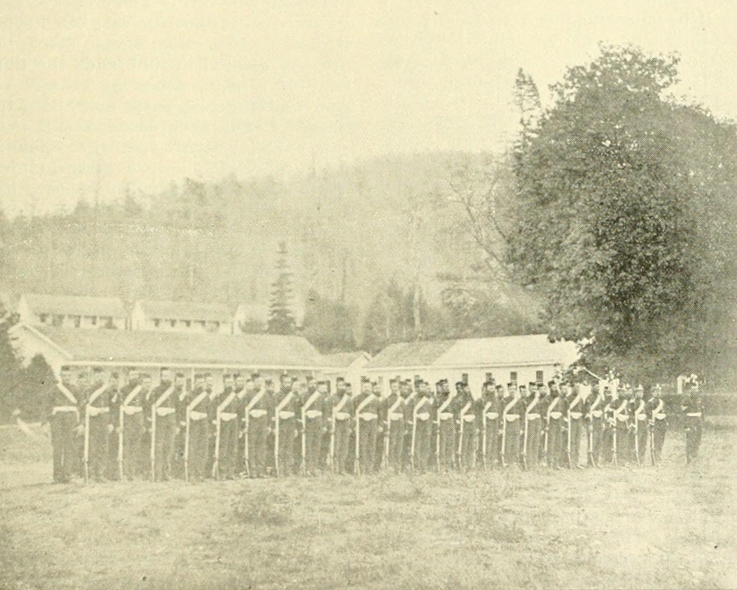 British troops evacuate English Camp on San Juan Island, Washington Territory, in 1872, following resolution of boundary dispute by arbitration.